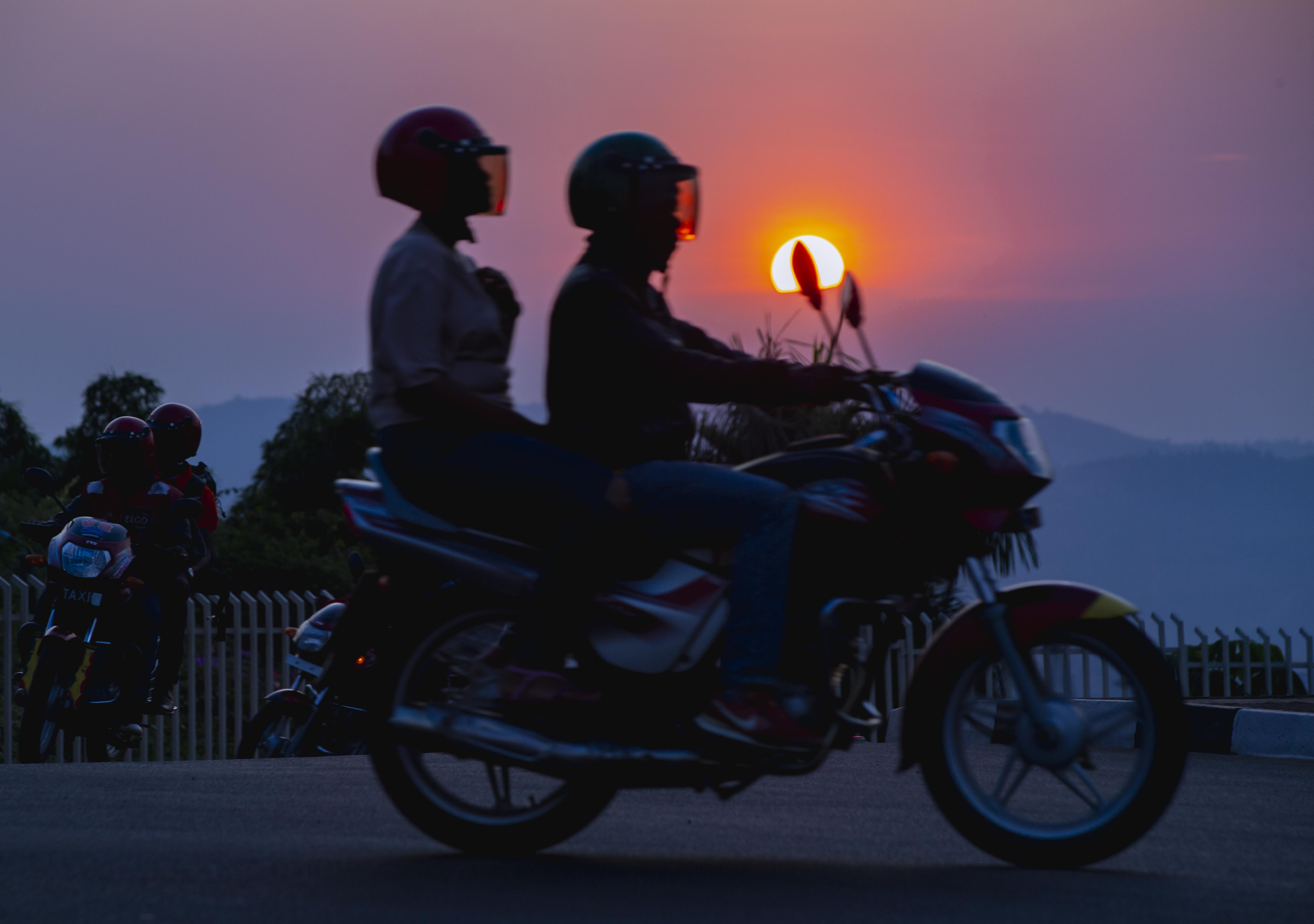 A motorist carries a passenger amid a beautiful sunset in the sky of Kigali. Emmanuel Kwizera This is an image with the theme "Africa on the Move or Transport" from: Rwanda